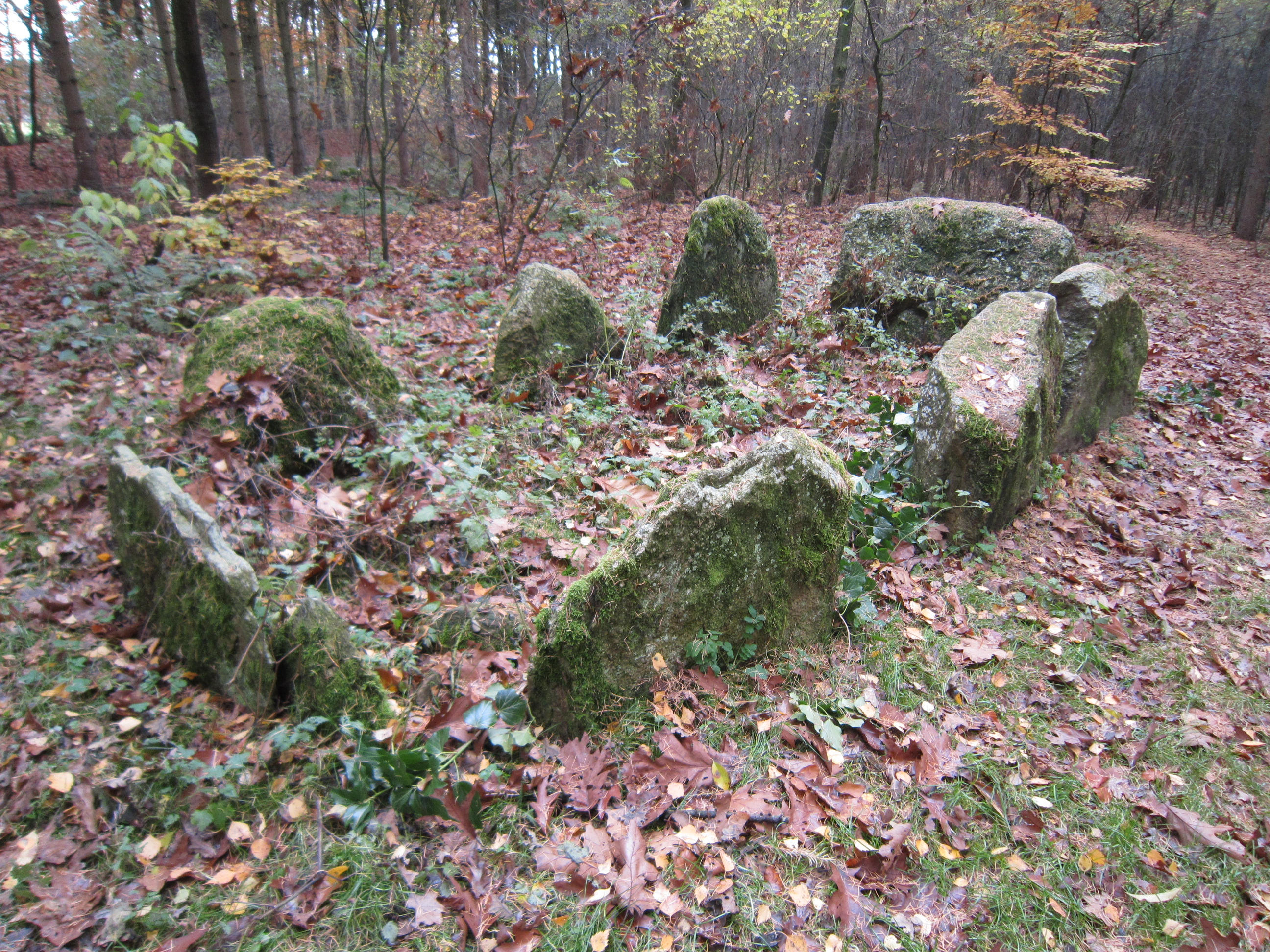 Cist grave near Lindern (Landkreis Cloppenburg, Lower Saxony)